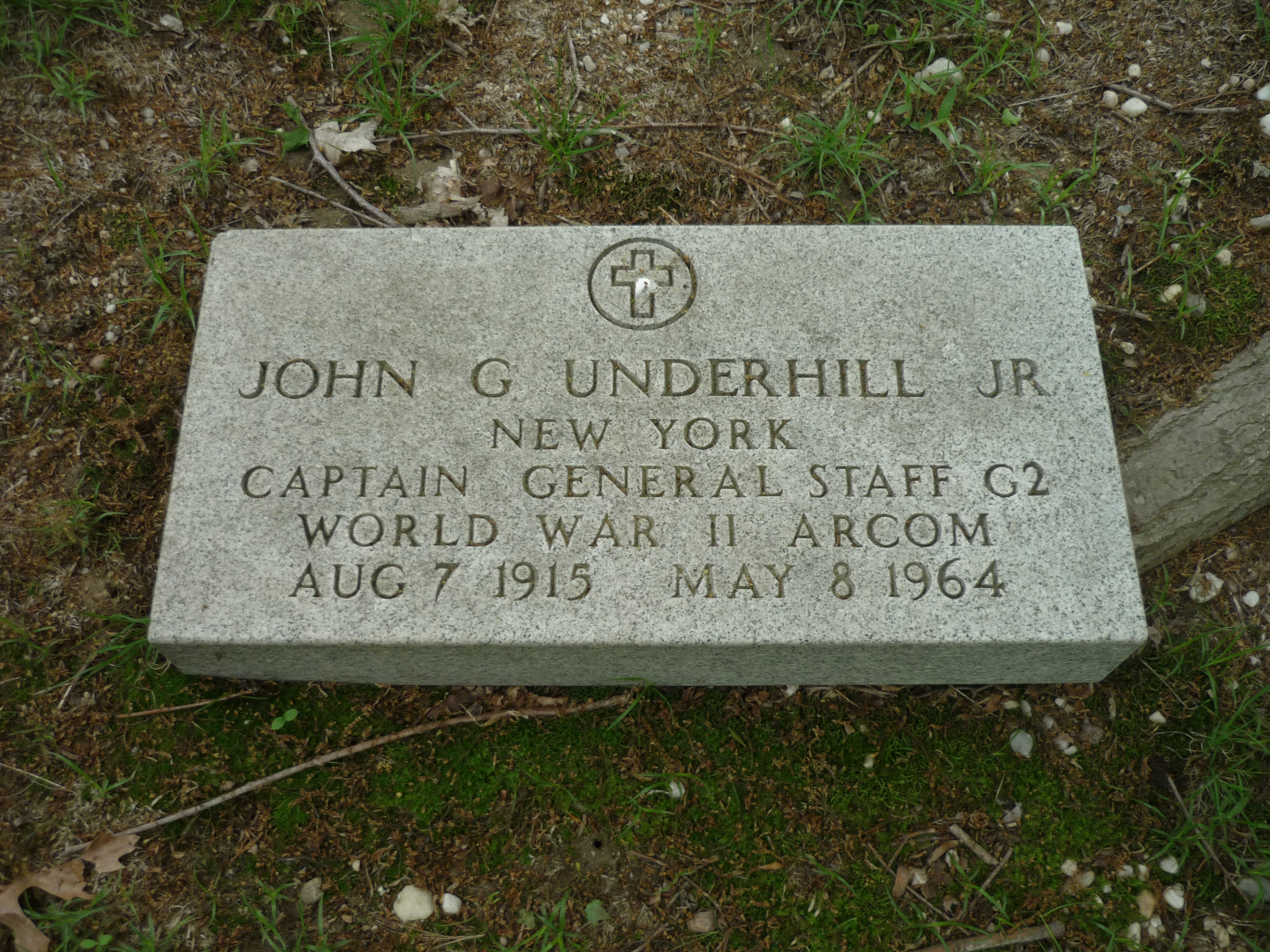 Gravestone for John Garrett Underhill, Jr. at the Underhill Burying Ground in Lattingtown, New York.